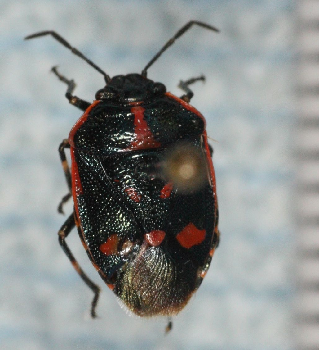 The Shield bug Eurydema oleracea